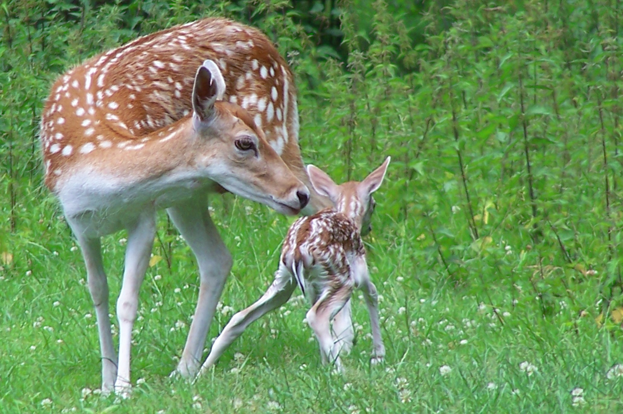 this photo also in a.d.